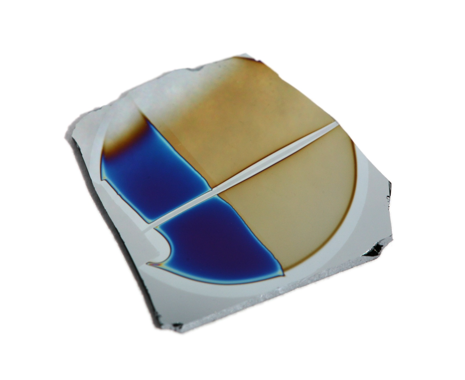 Tetrahedral amorphous carbon thin film grown by ion beam deposition at University of Goettingen, Germany. The two colors result from interference at the 80nm (blue) and 40nm (tan) region. The trench was caused by a wire across the substrate to facilitate the thickness measurement. The light aura around the carbon film is the result of a 1keV Argon ion sputter cleaning treatment prior to deposition.